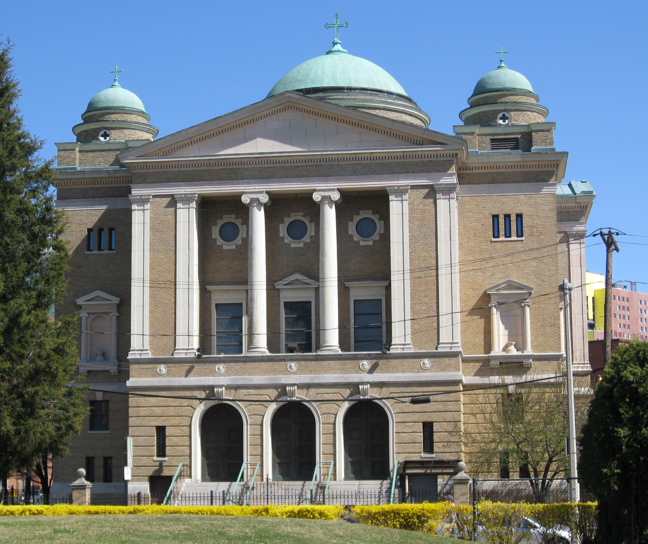 Greek Orthodox Cathedral of the Annunciation, Boston